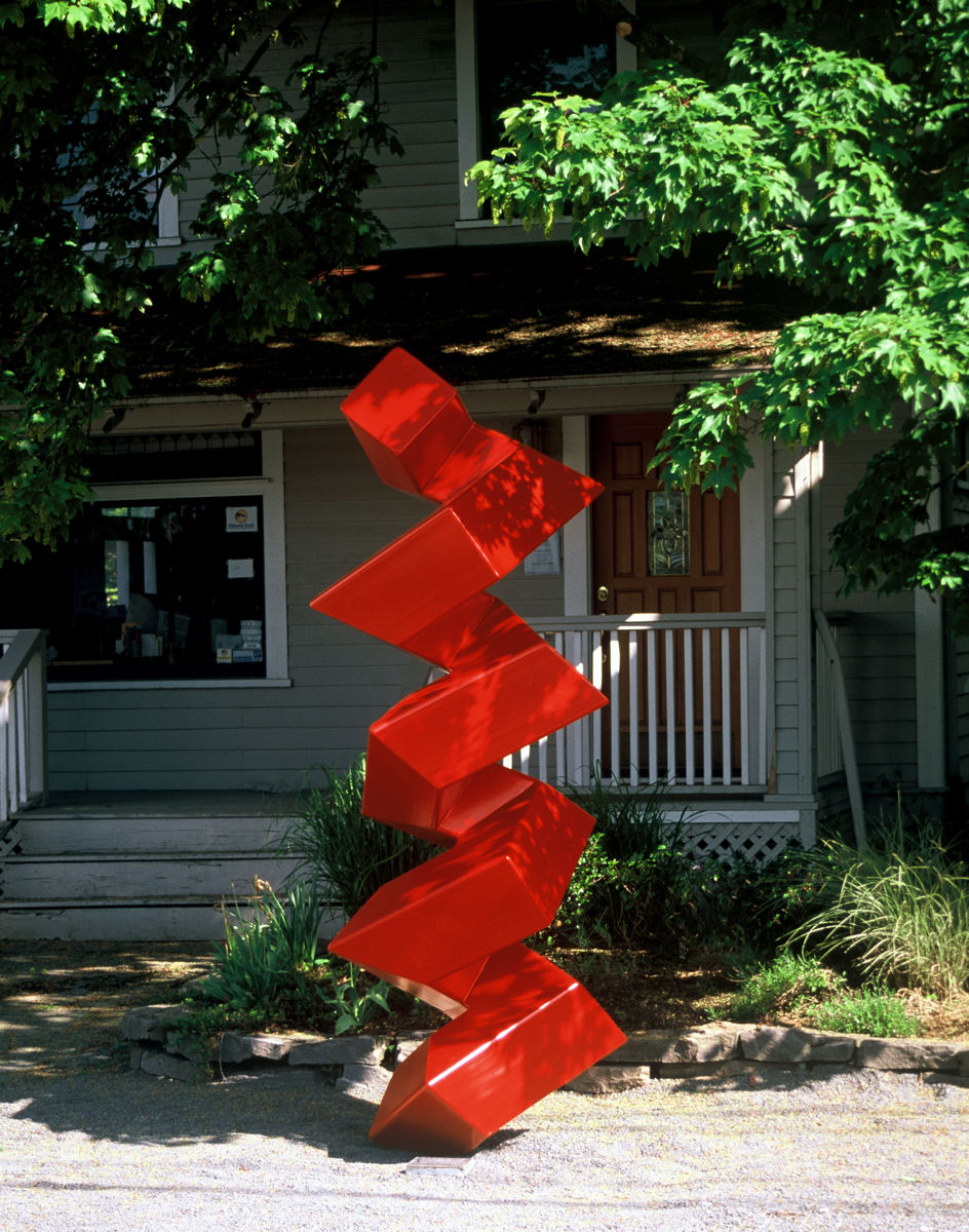 Artist: Julian Voss-Andreae Shown sculpture: "Alpha Helix for Linus Pauling" (2004), height 10' (3 m), powder-coated steel, location: 3945 SE Hawthorne Blvd, Portland, OR 97214 Photographer: Julian Voss-Andreae Photo taken Spring 2004